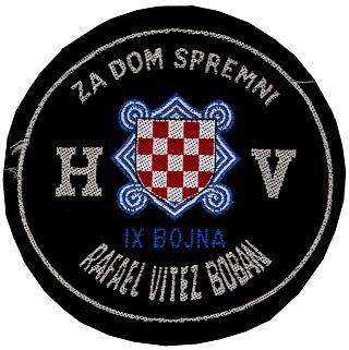 HOS IX